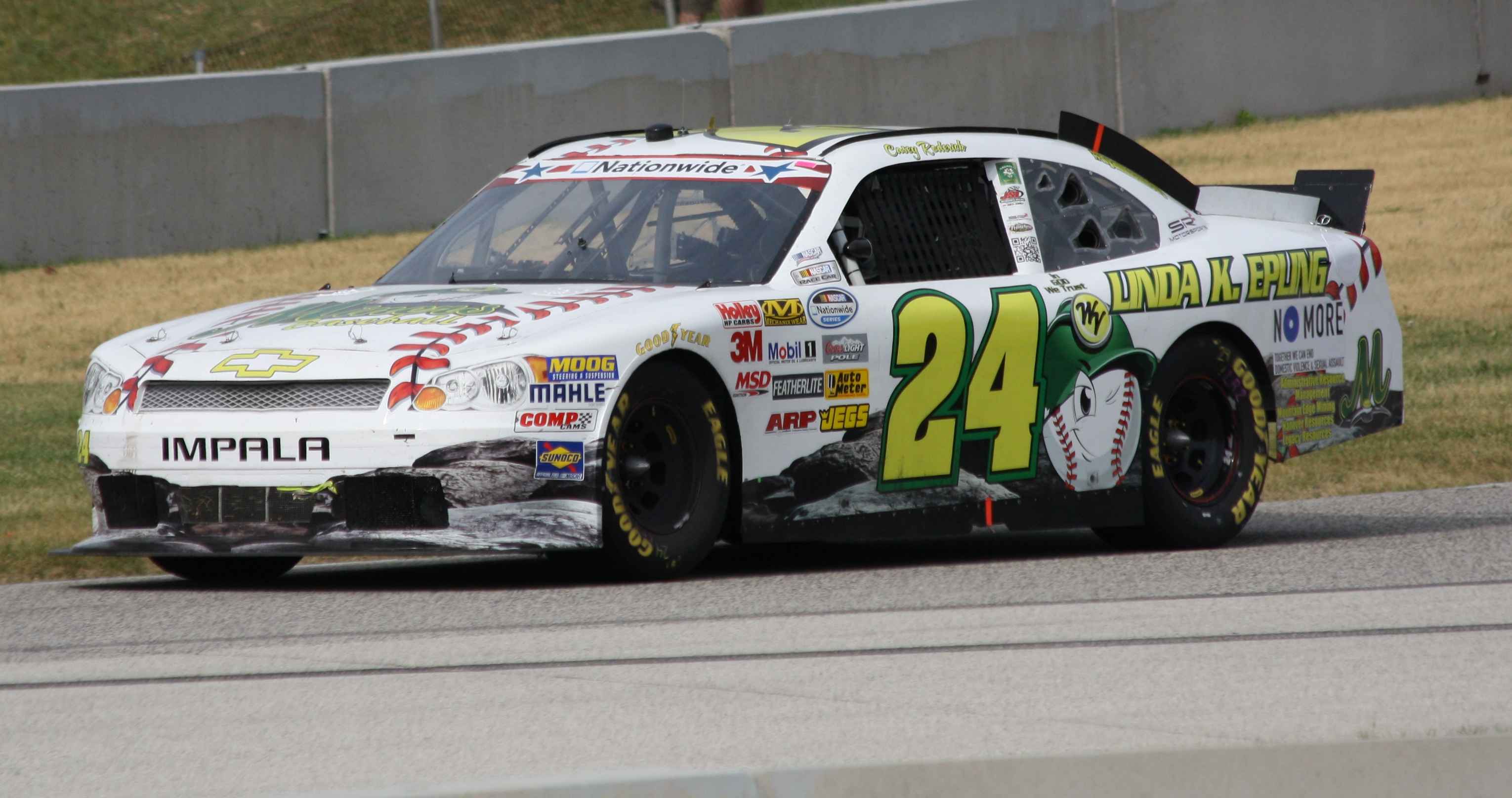 Casey Roderick NASCAR Nationwide Series car at Road America at the 2012 Sargento 200.